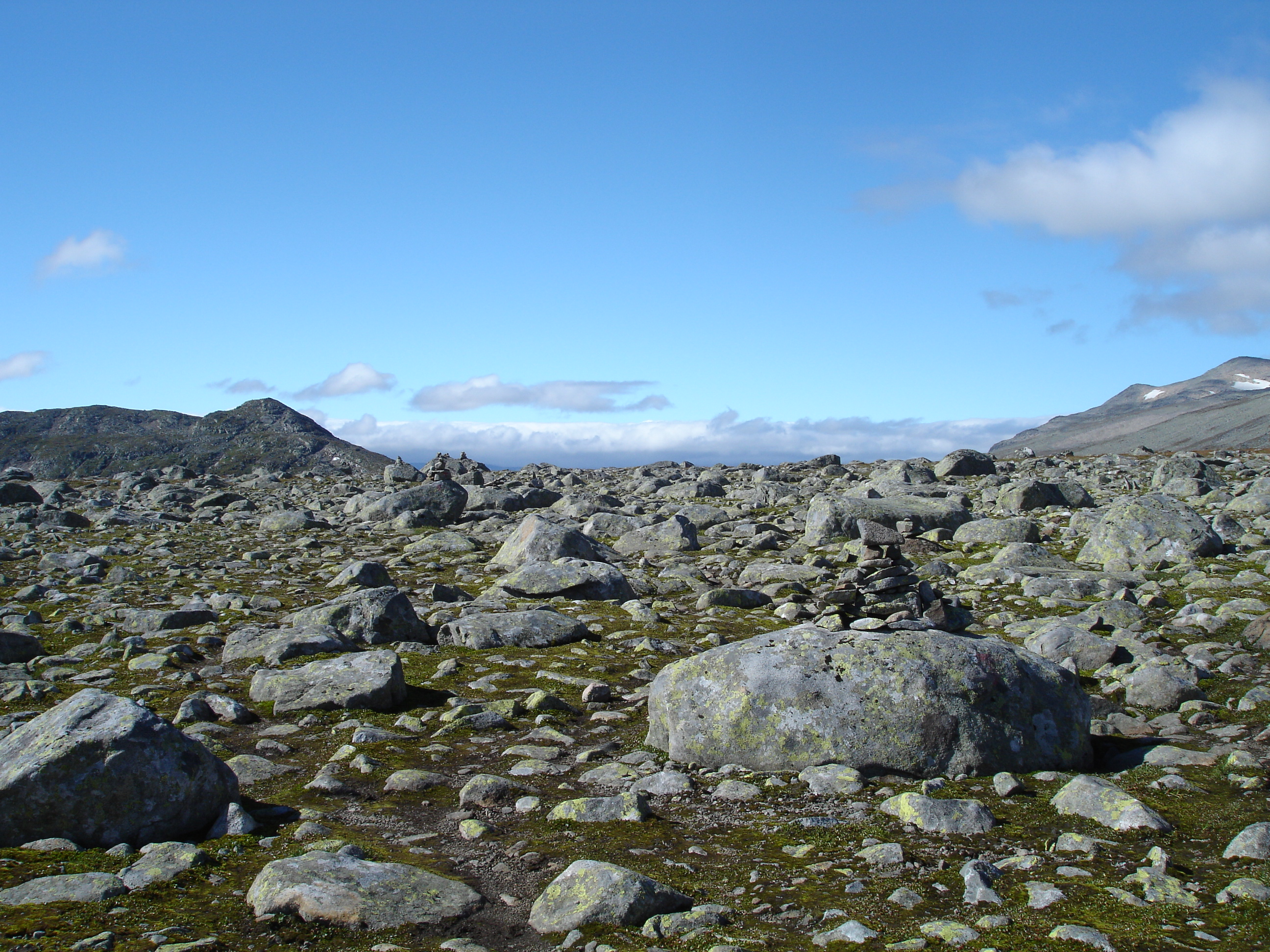 Stones and boulders from the Ice Age on Valdresflya